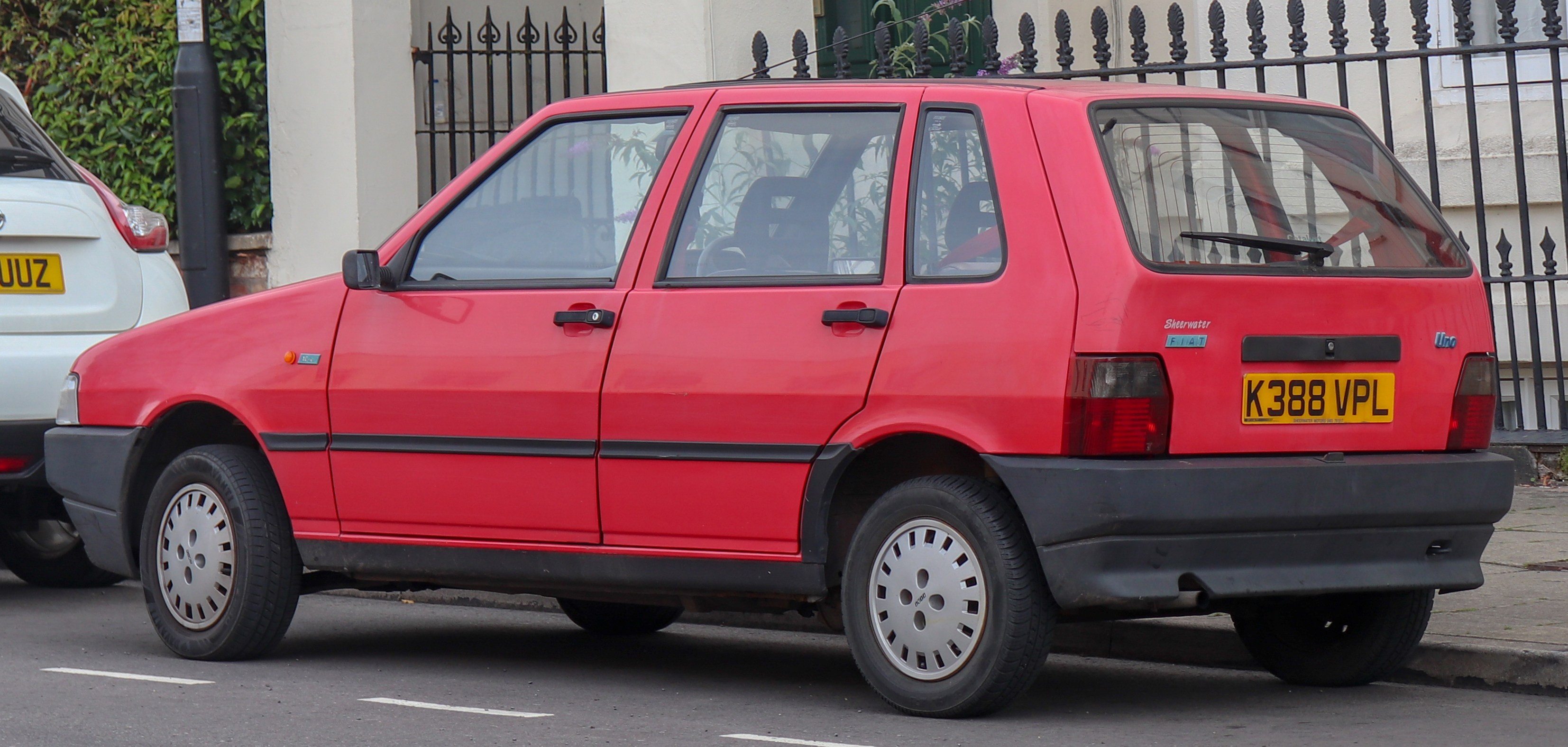 1992 Fiat Uno IE 1.0 Rear Taken in Leamington Spa